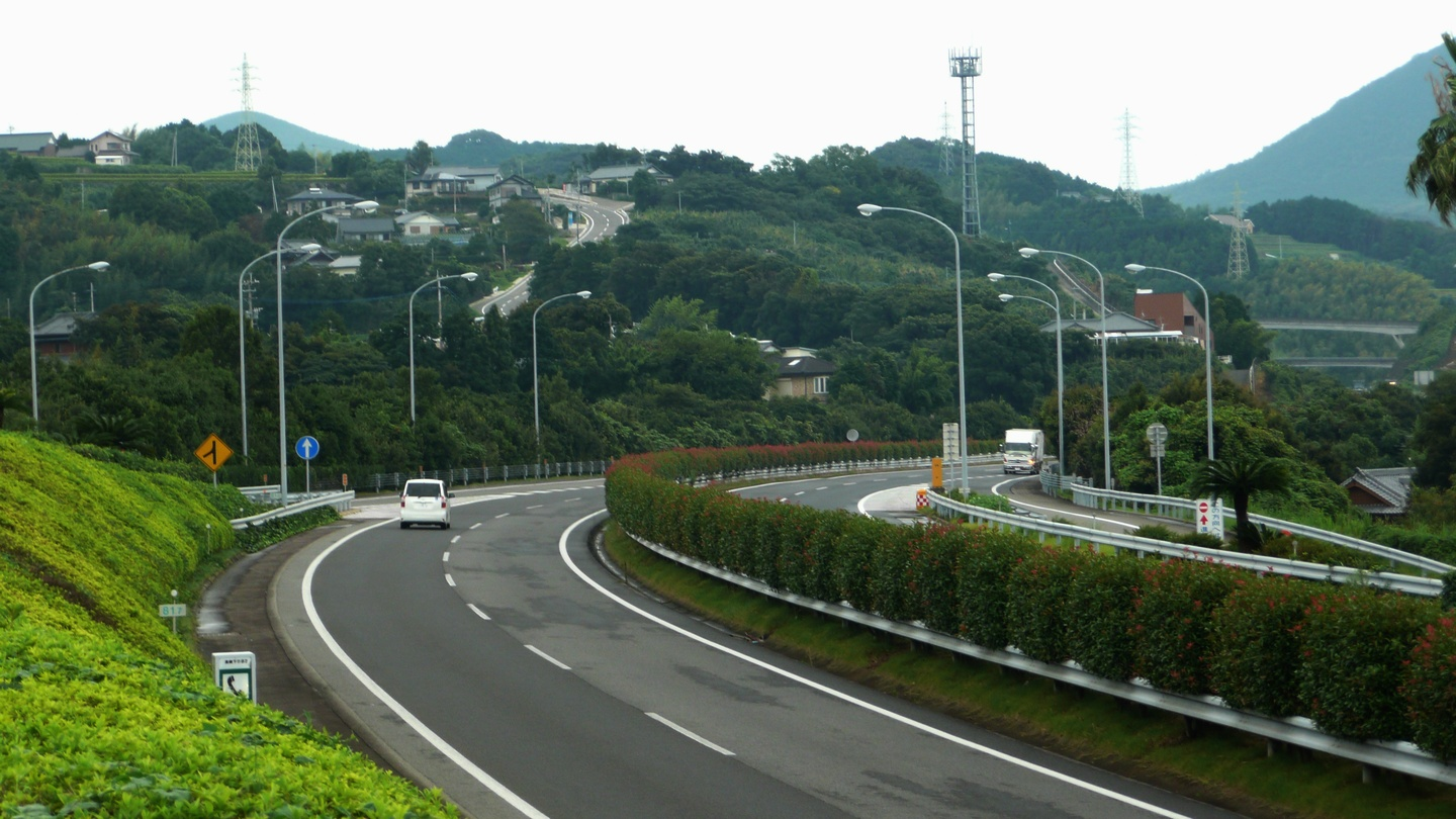 Nagasaki Expressway - 81.7km (Higashisonogi Town, Nagasaki, Japan)